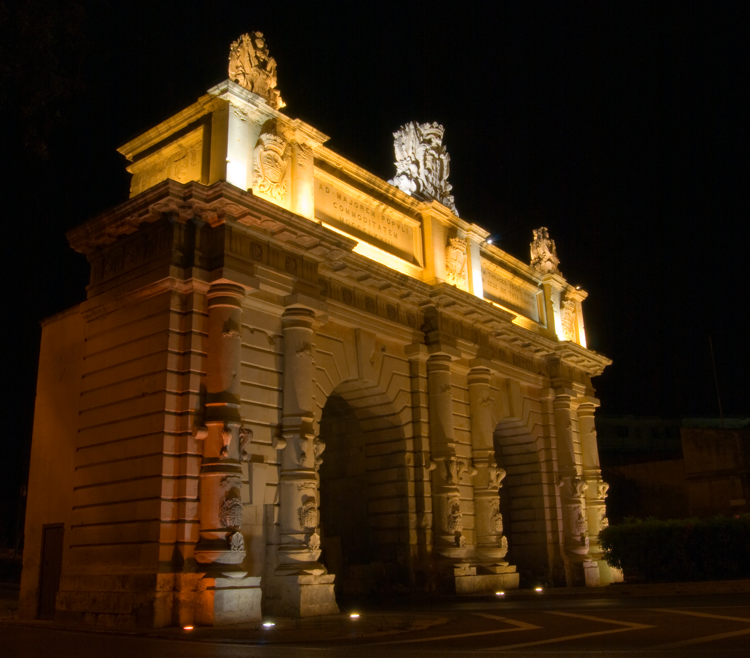 Porte des bombes